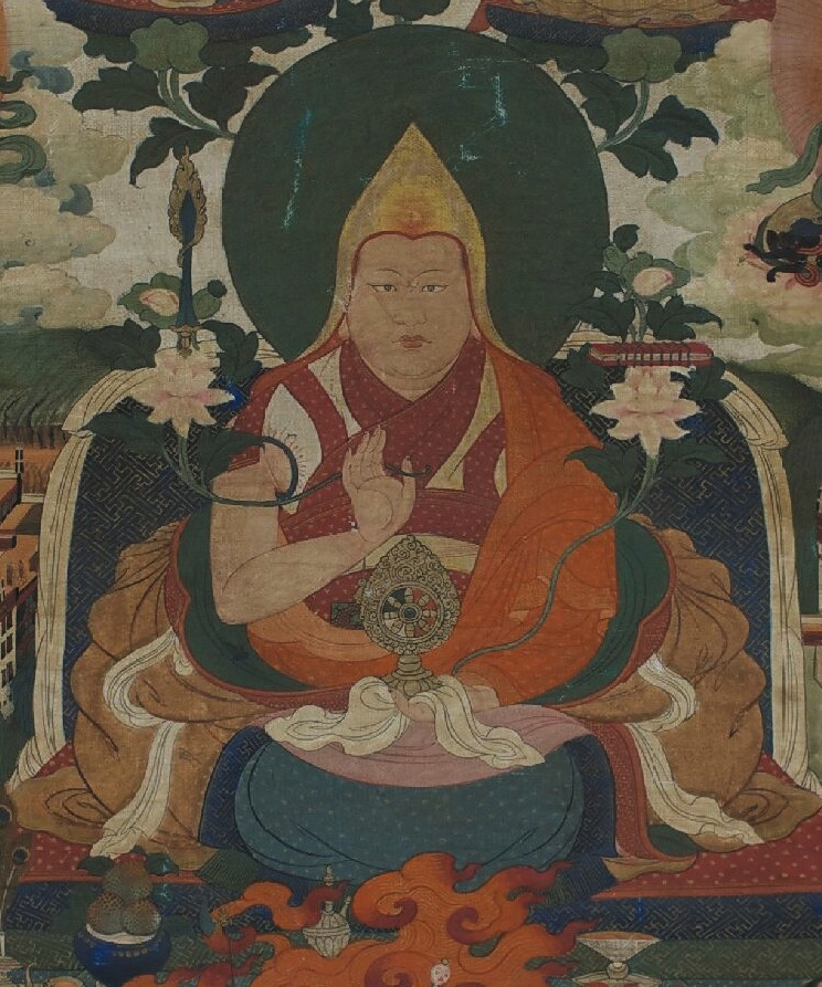 The Eighth Tatsak Jedrung, Yeshe Lobzang Tenpai Gonpo b.1760 - d.1810